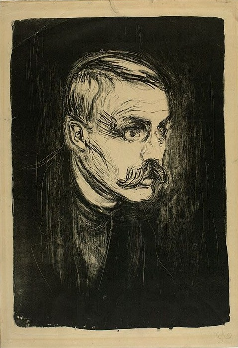 Sigbjørn Obstfelder